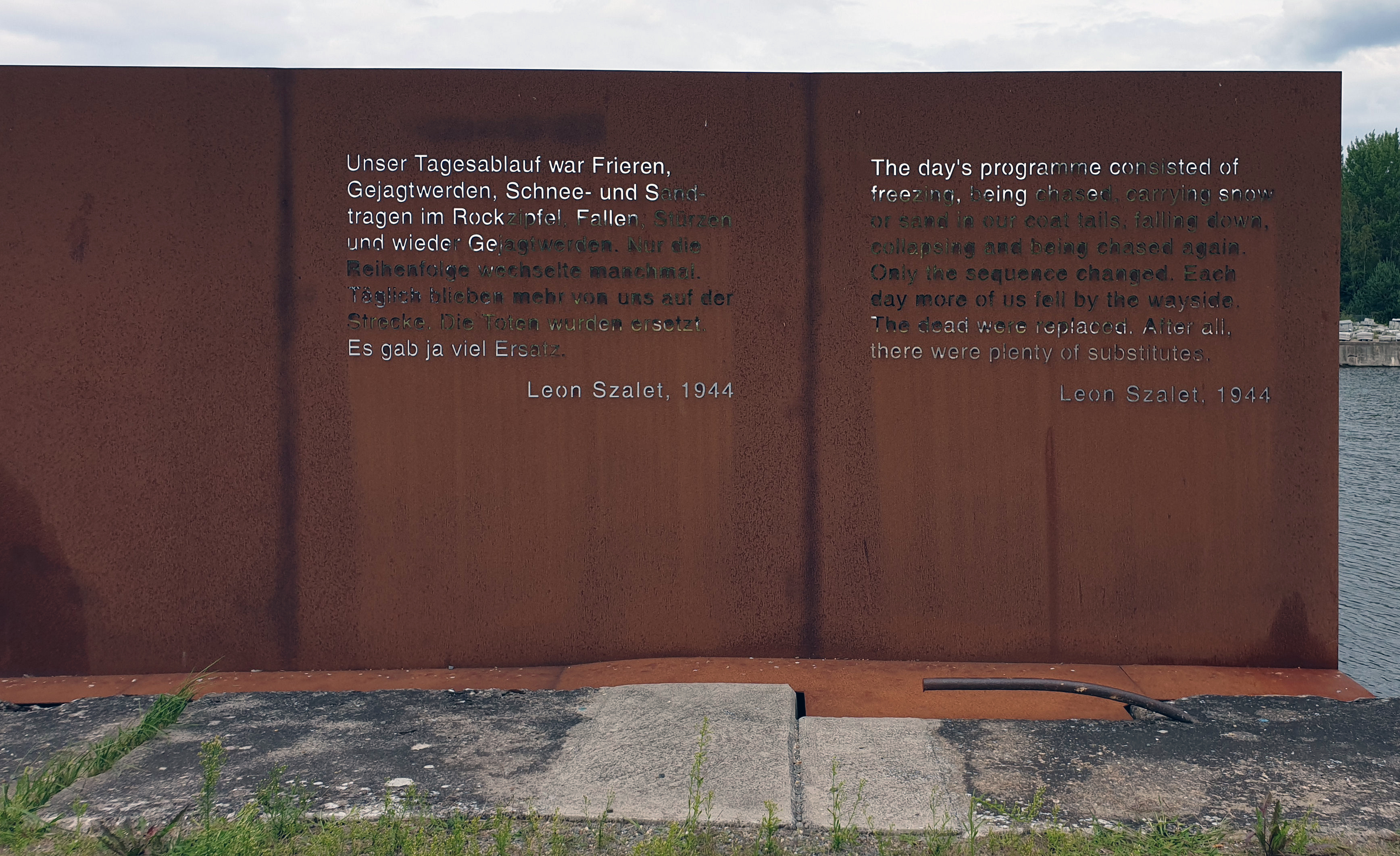 Memorial plaque, Klinkerwerk Oranienburg, Leon Szalet, Unser Tagesablauf..., Lehnitzschleuse, Oranienburg, Germany